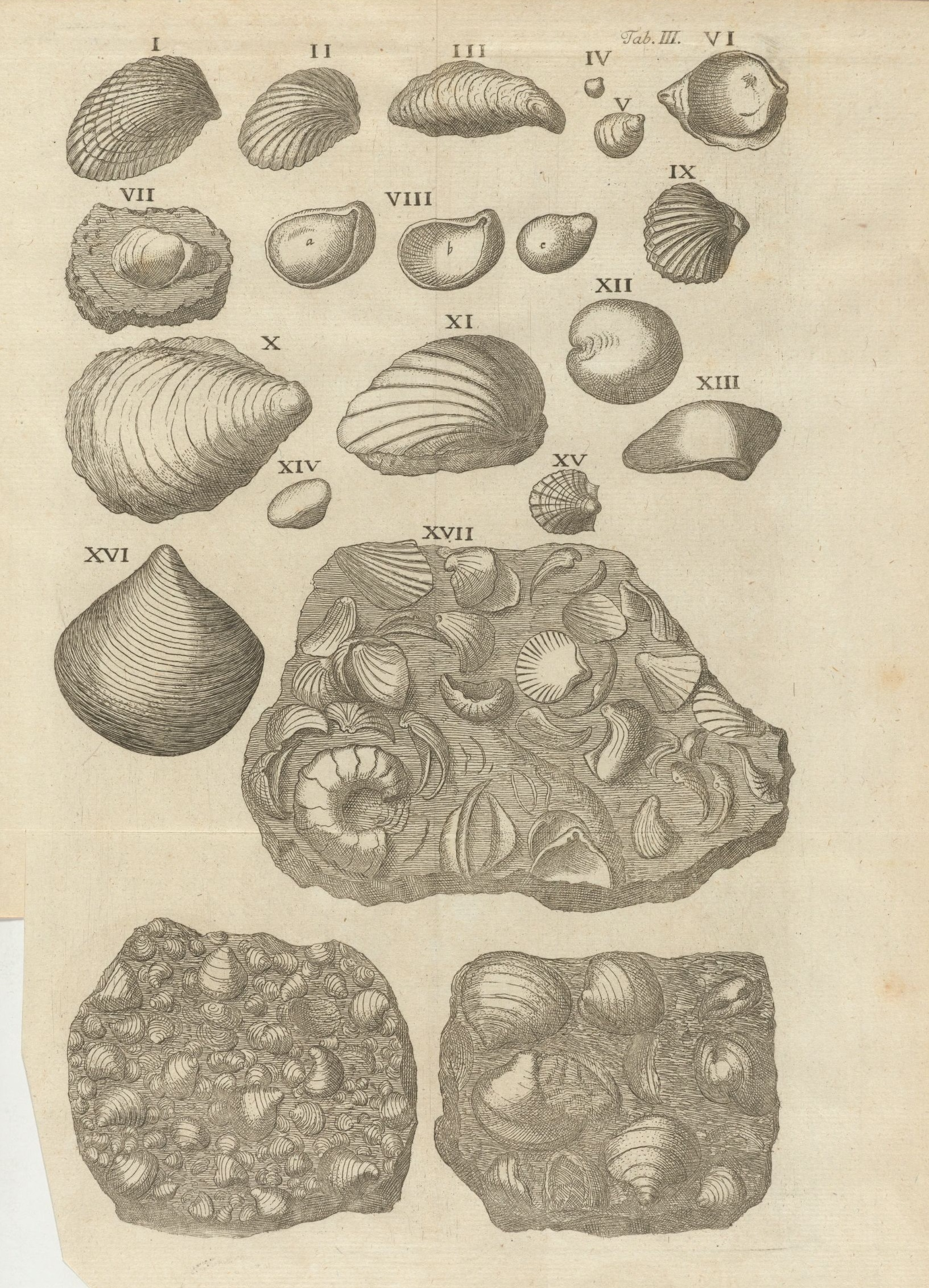 Tab III from Svmmi polyhistoris Godefridi Gvilielmi Leibnitii Protogaea (Goettingae, 1749), Gottfried Wilhelm Leibniz (1646-1716). *GC6.L5316.749p, Houghton Library, Harvard University